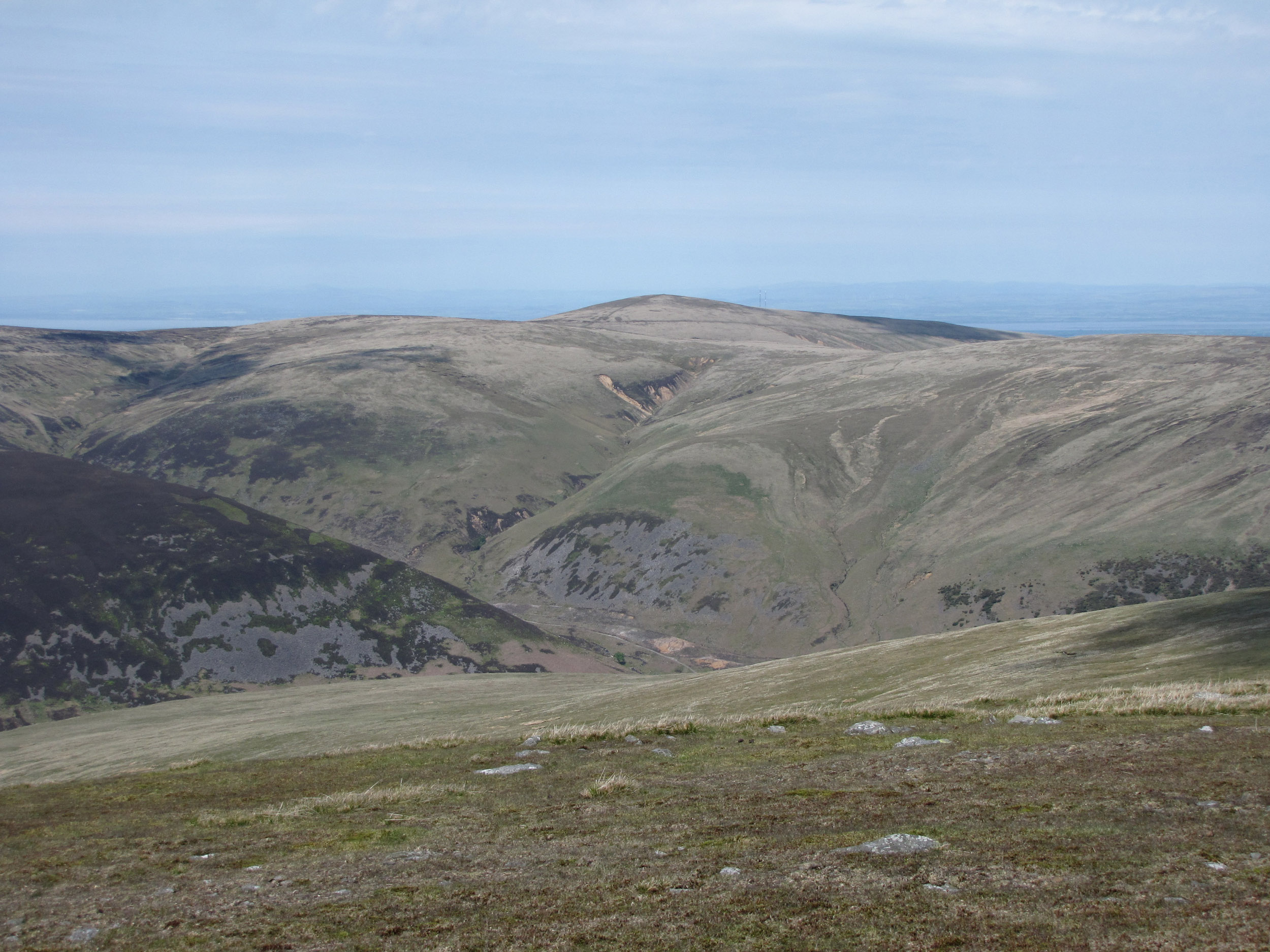 The fell High Pike in the northern sector of the English Lake District. Seen from Bowscale Fell 5 km to the SE.